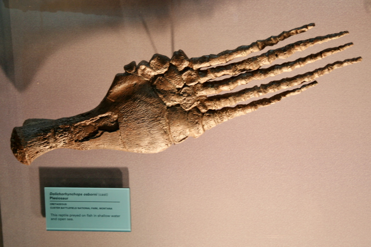 Dolichorhynchops is a genus of polycotylid plesiosaur from the Late Cretaceous of North America, containing two species, D. osborni and D. herschelensis. Simply put, Dolichorhynchops (also known as "Dolly" to paleontologists) was an oceangoing prehistoric reptile. Its Greek generic name means "long-nosed eye," perhaps with reference to the fact that its eyes seem placed rather far forward on its lengthy snout. (wikipedia)